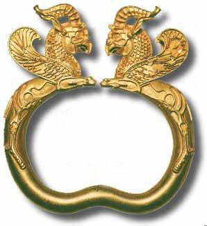 Bracelet from Achaemenid Persia (Iran)